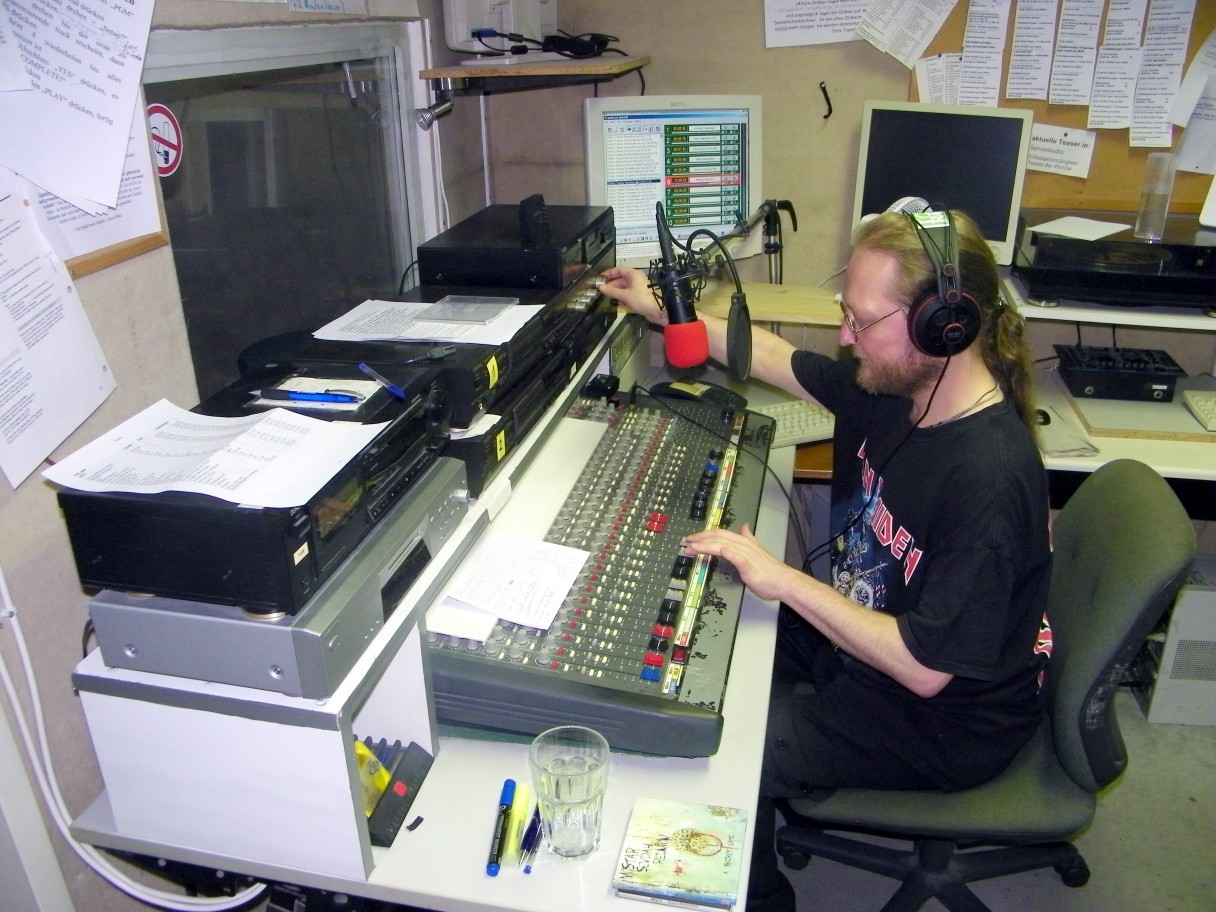 Broadcast technican at mixing desk at radio LORA München, a community radio station in Munich, Germany.